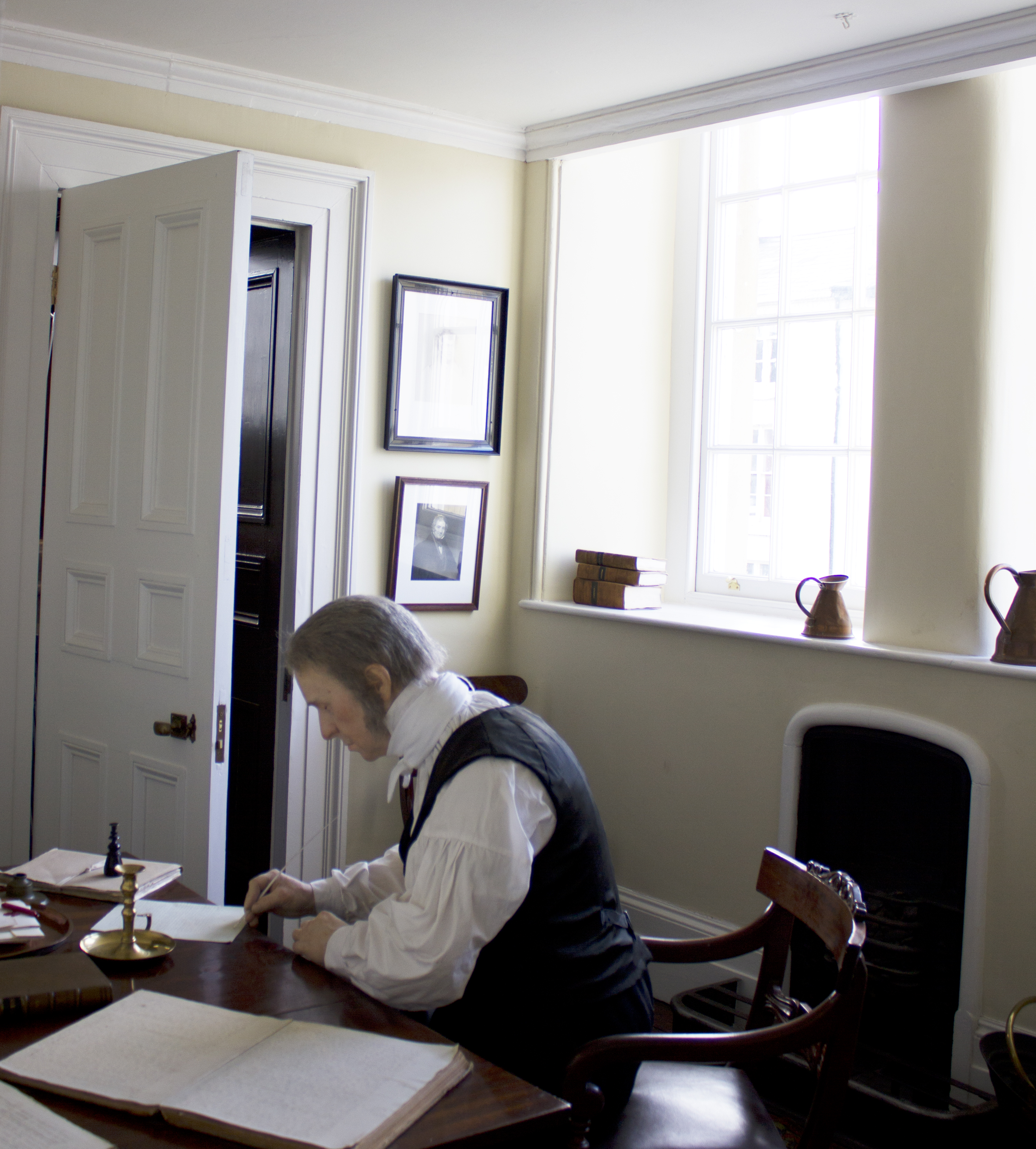 Mannequin of Judge Nicholas Conyngham Tindal in his study at Shire Hall, Monmouth